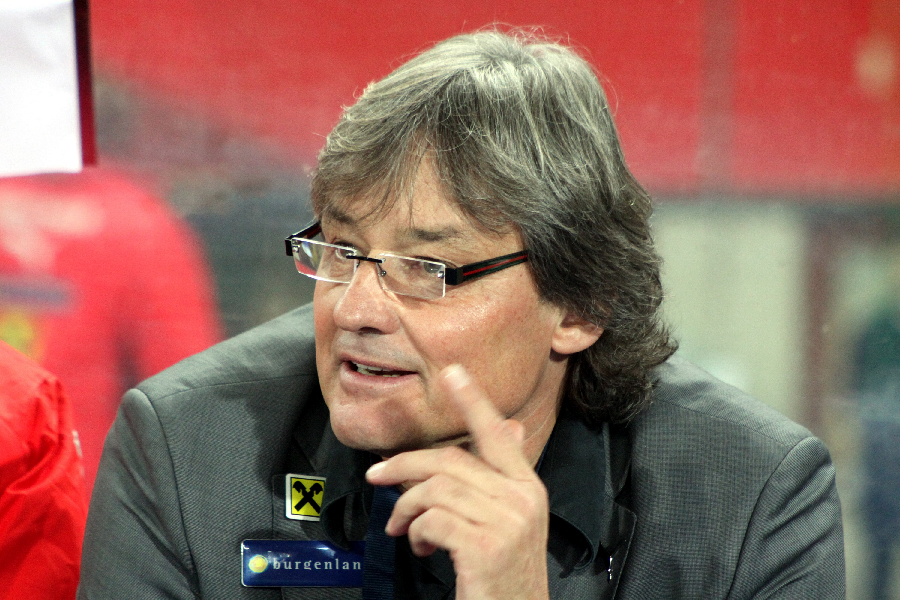 Dietmar Constantini, Teamchef of the Austria national football team